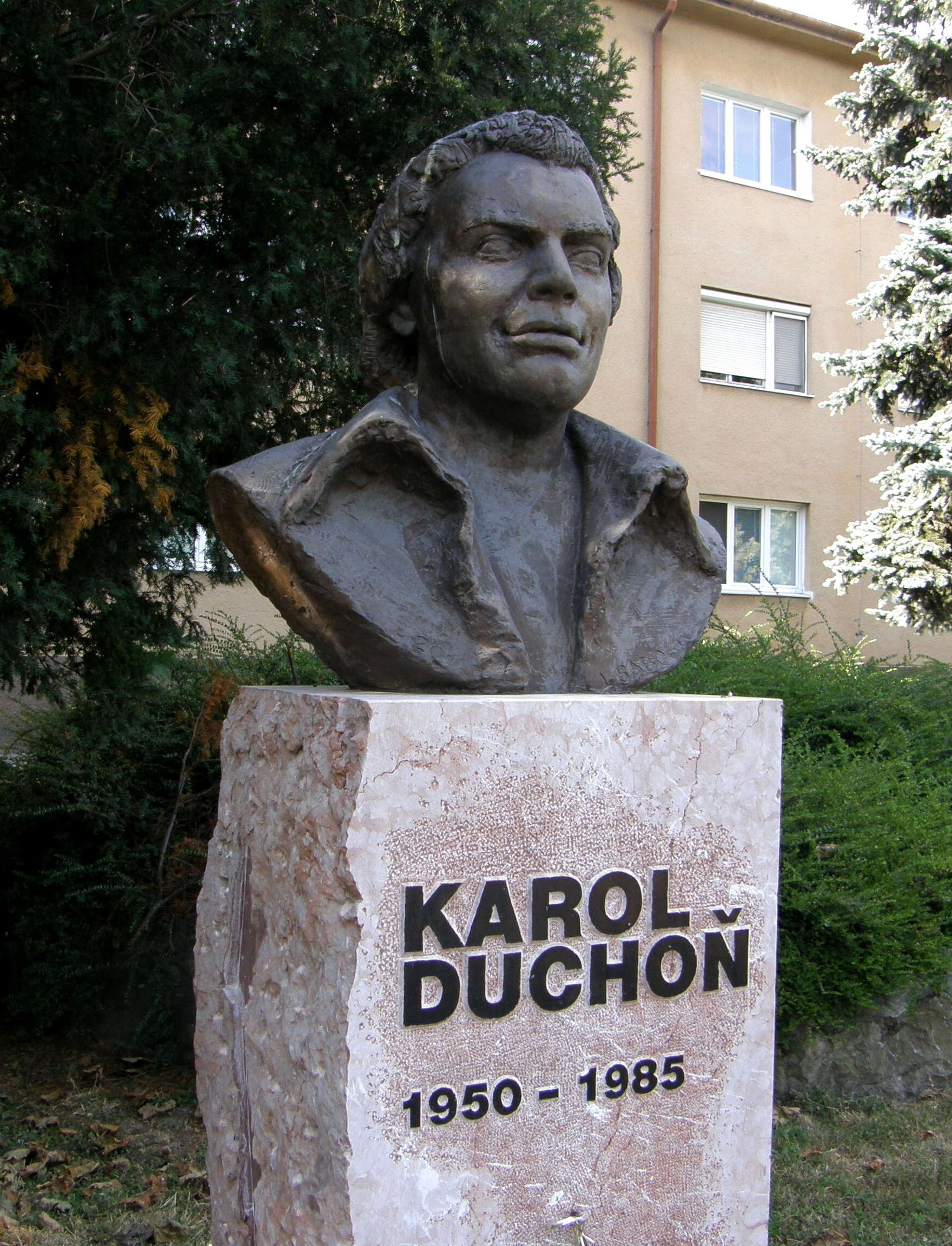 Memorial of Karol Duchoň in Galanta.